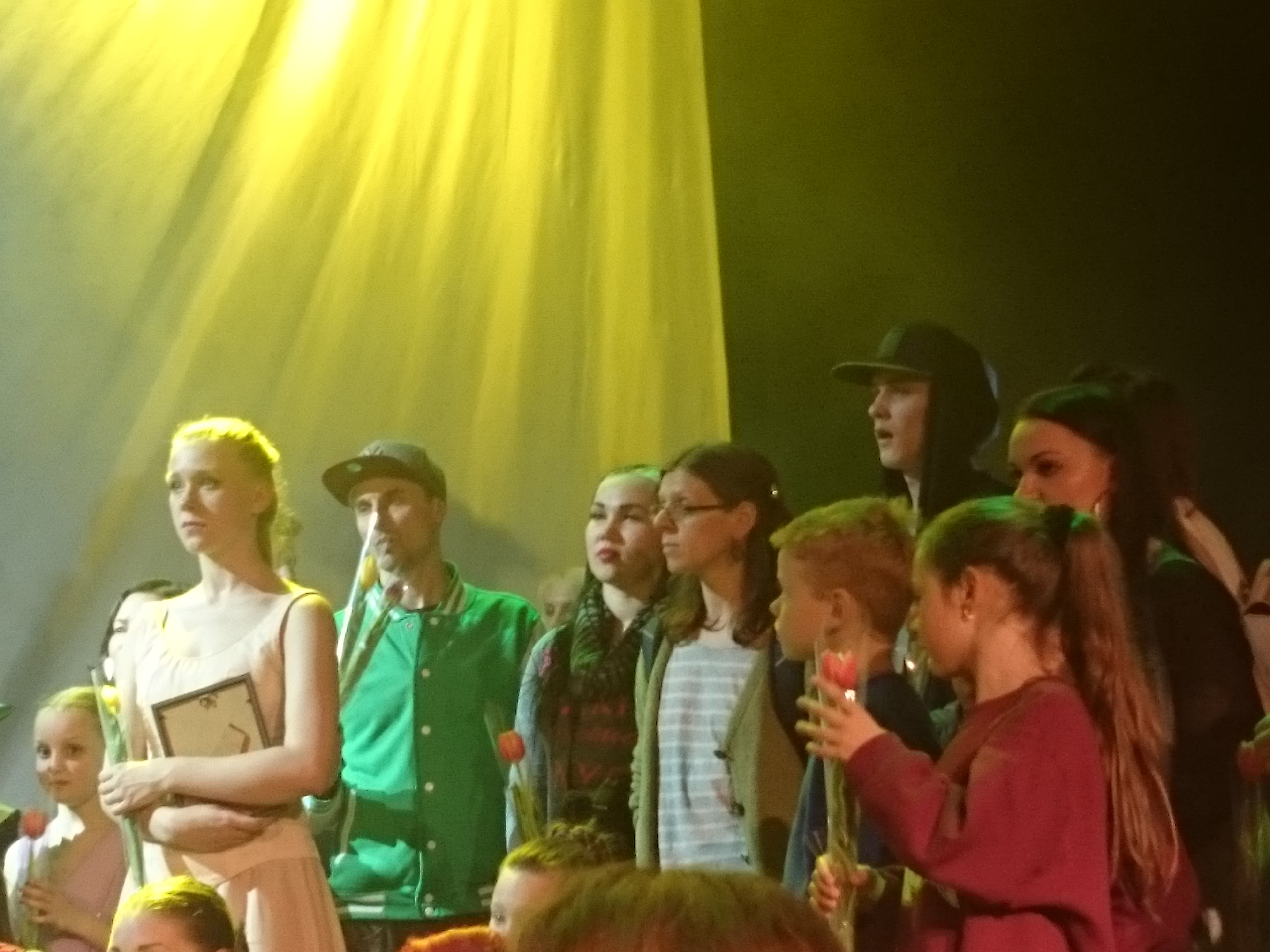 Norim kilt 2015-7